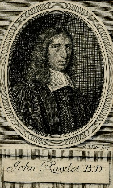 Portrait of John Rawlet (1642–1686), English Anglican priest.